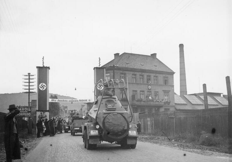 German armored cars leed the troops as they enter Aussig in the Sudeten